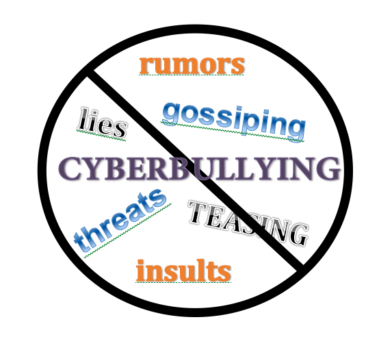 This image shows other forms of cyberbullying that need to be stop as well in order to stop cyberbullying.